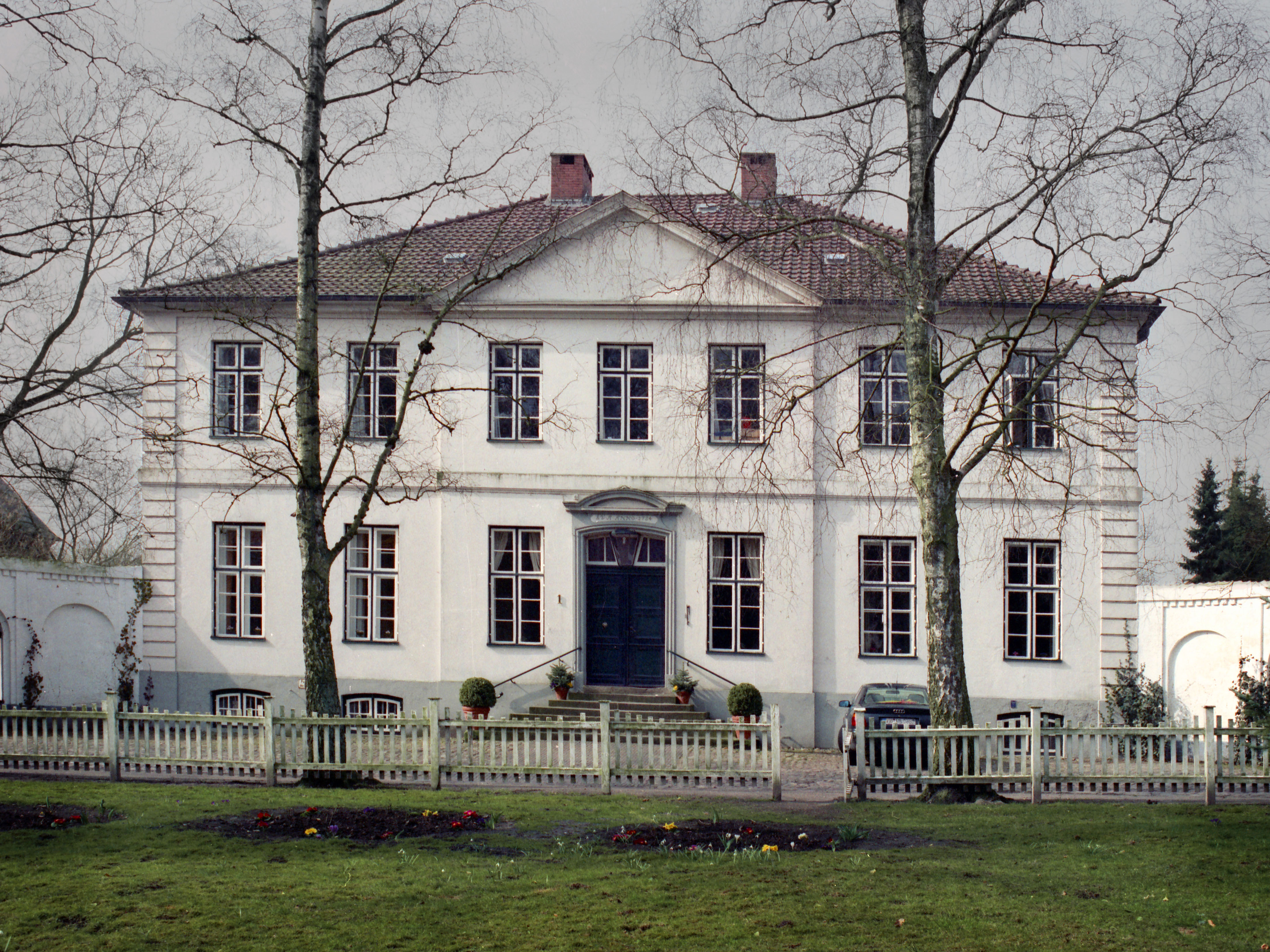 Monastery, house of the provost, Uetersen (Germany), photo 1995